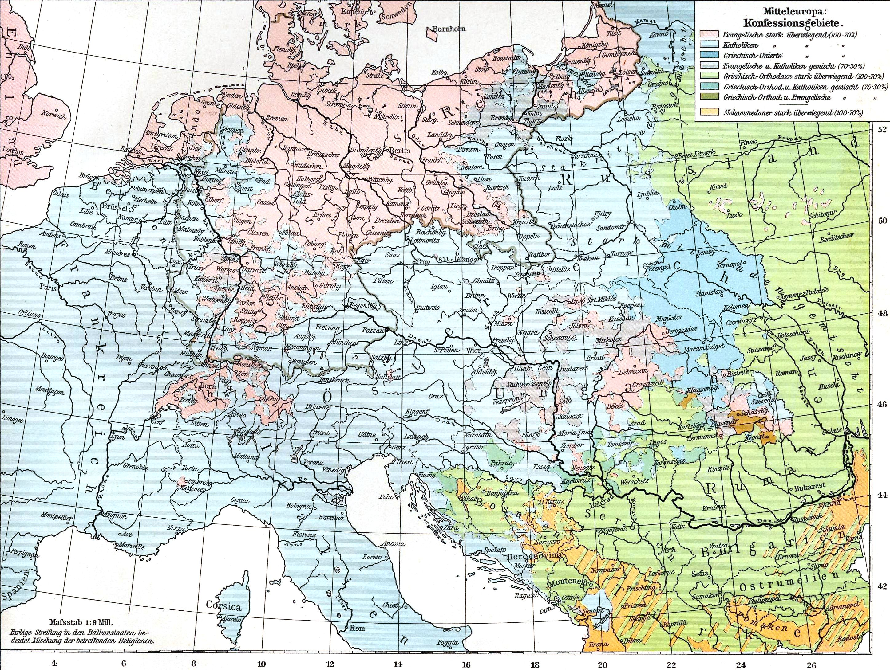 Confessions in Central Europe, 1901.